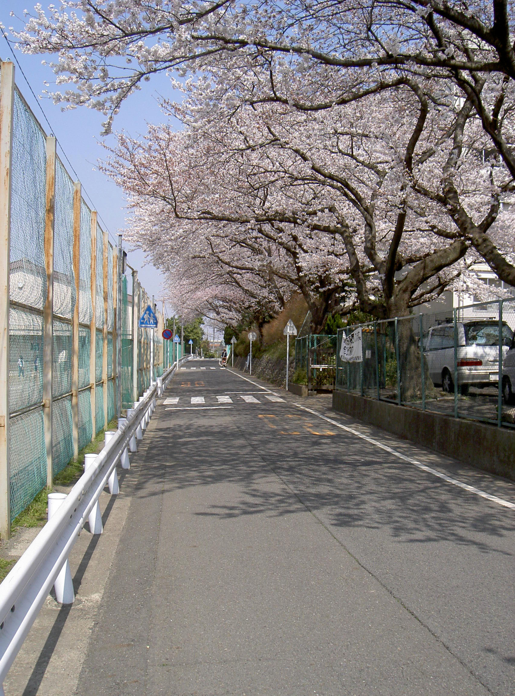 Kanagawa prefectural road route 407 ja: 神奈川県道407号杉久保座間線